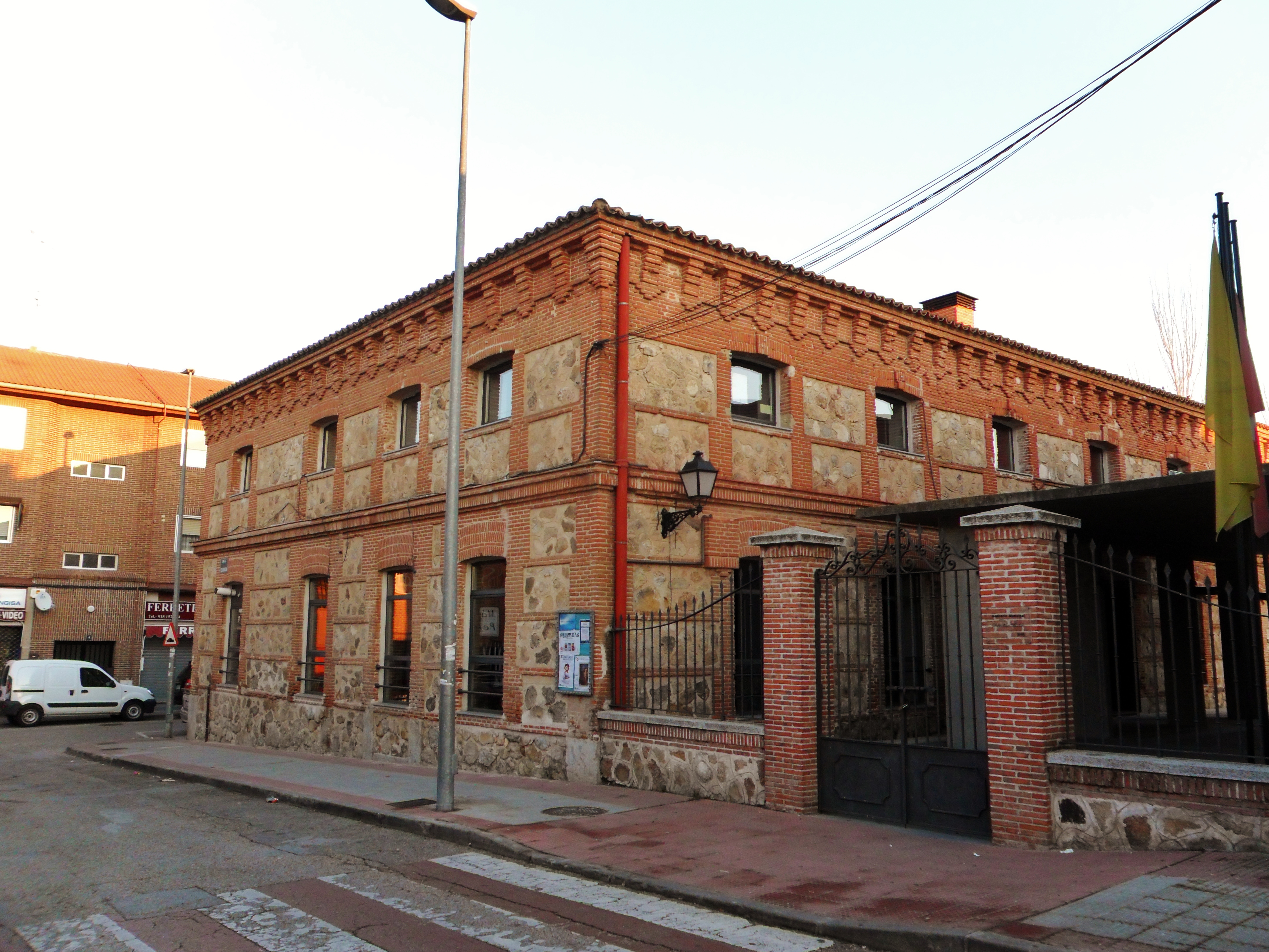 Villanueva del Pardillo public library.